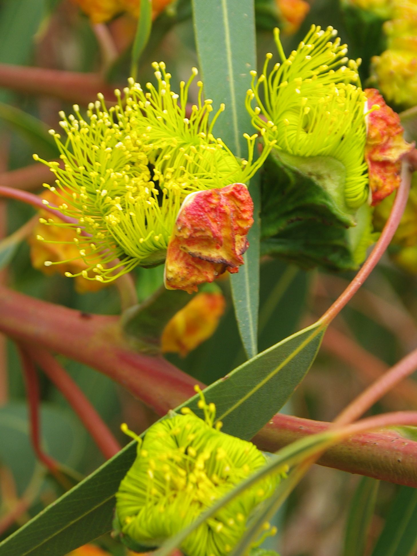 Emergent flowers of Eucalyptus Erythrocorys, on cultivar in Greenmount Western Australia - expanded version of File:ErythrycorysBranchandFlowerSatu1